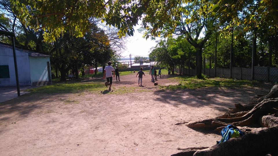 school kids game